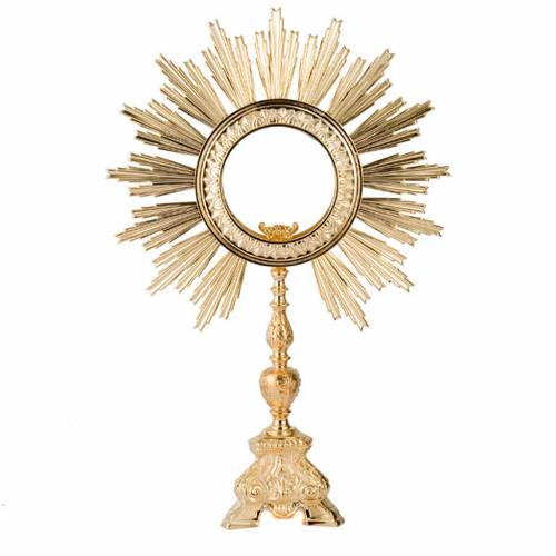 Baroque monstrance with luna suitable to hold concelebration host up to 15 cm. Big size monstrance (height 64 cm) entirely made of golden-plated brass. The brass monstrance is nickeled, then coated with palladium and plated with 24 carat galvanic gold covering.